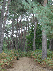 Woods on Brownsea Island, Poole Harbour, Dorset, England, UK. GFDL permission granted by Emily Hanson on 17 June 2007.